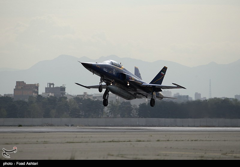 Islamic Republic of Iran Air Force training